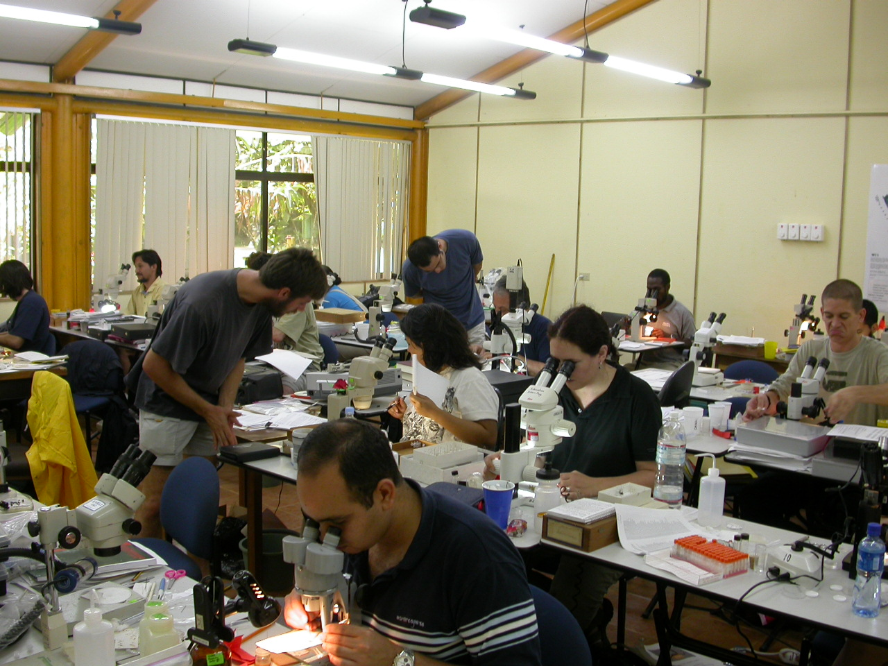 Classroom being used for an Ant Course taught by Dr. Brian Fischer at La Selva Biological Station in 2004. Other information The owner is my professor and I personally received the photos (through email) and permission to use them (in person).